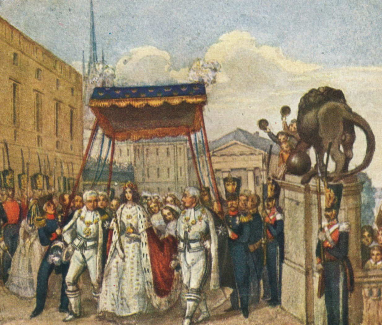 Coronation of king Oscar I and queen Josephine in Stockholm, September 28, 1844. The queen is surrounded to the right by his excellency Carl Axel Löwenhielm and to the left by his excellency Carl de Geer